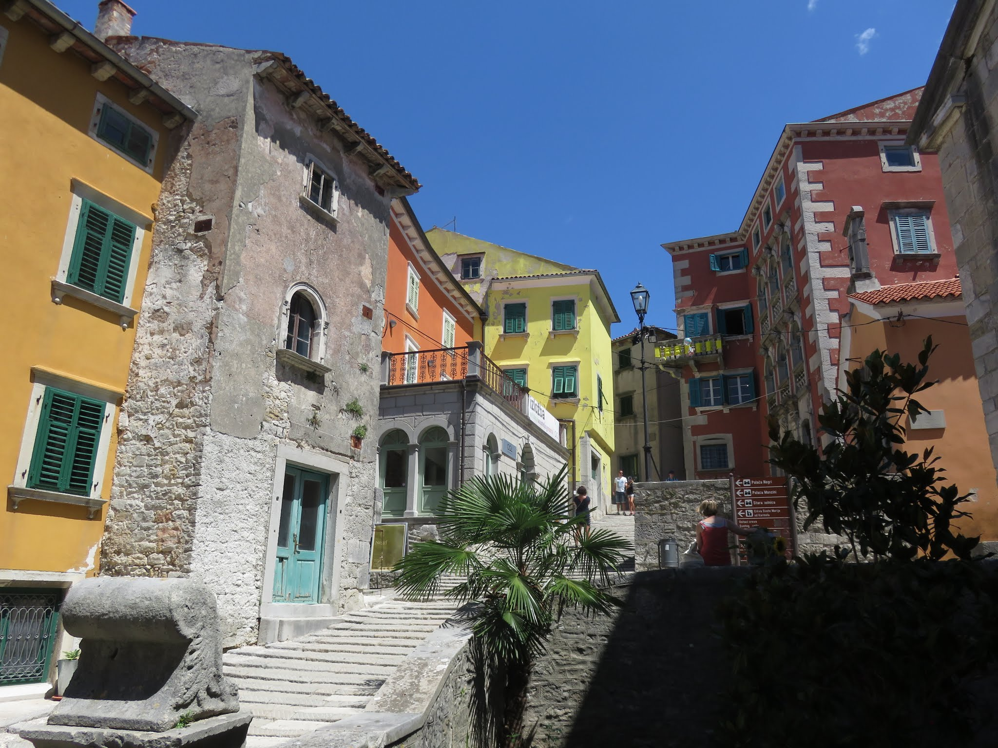 Labin, Croatia